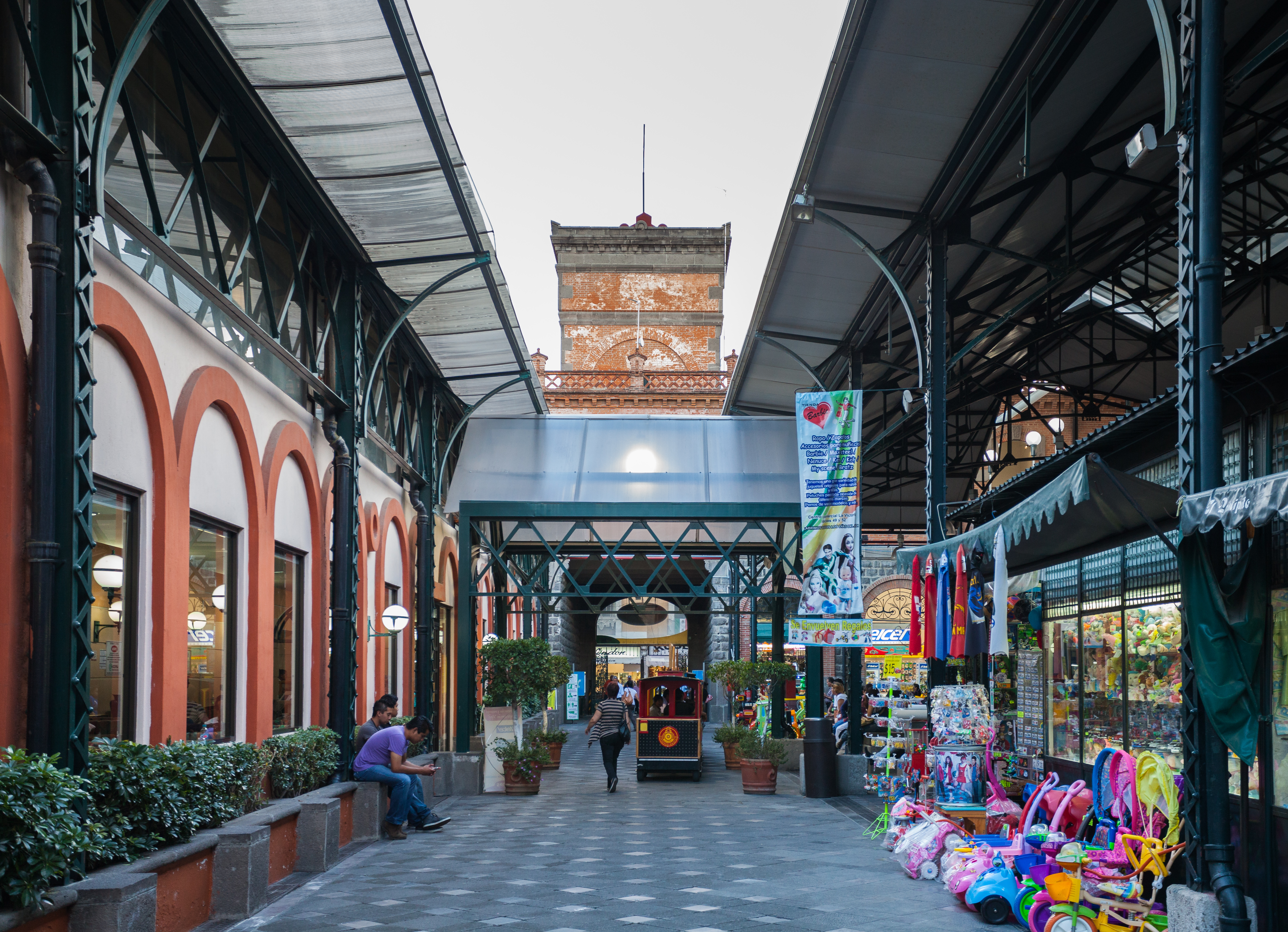 Old Victory Market, Puebla, Mexico